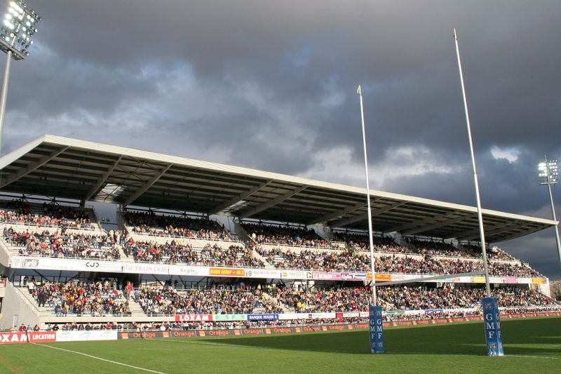 Michelin stadium in Clermont-Ferrand, France. A view of the Auvergne Stand